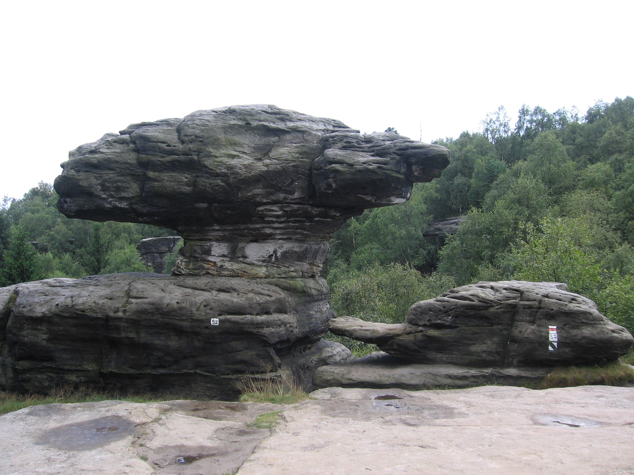 Sandstone Area Tiské stěny in Ústí nad Labem Region (Czech Republic) - massifs called "A Mushroom and a Turtle"